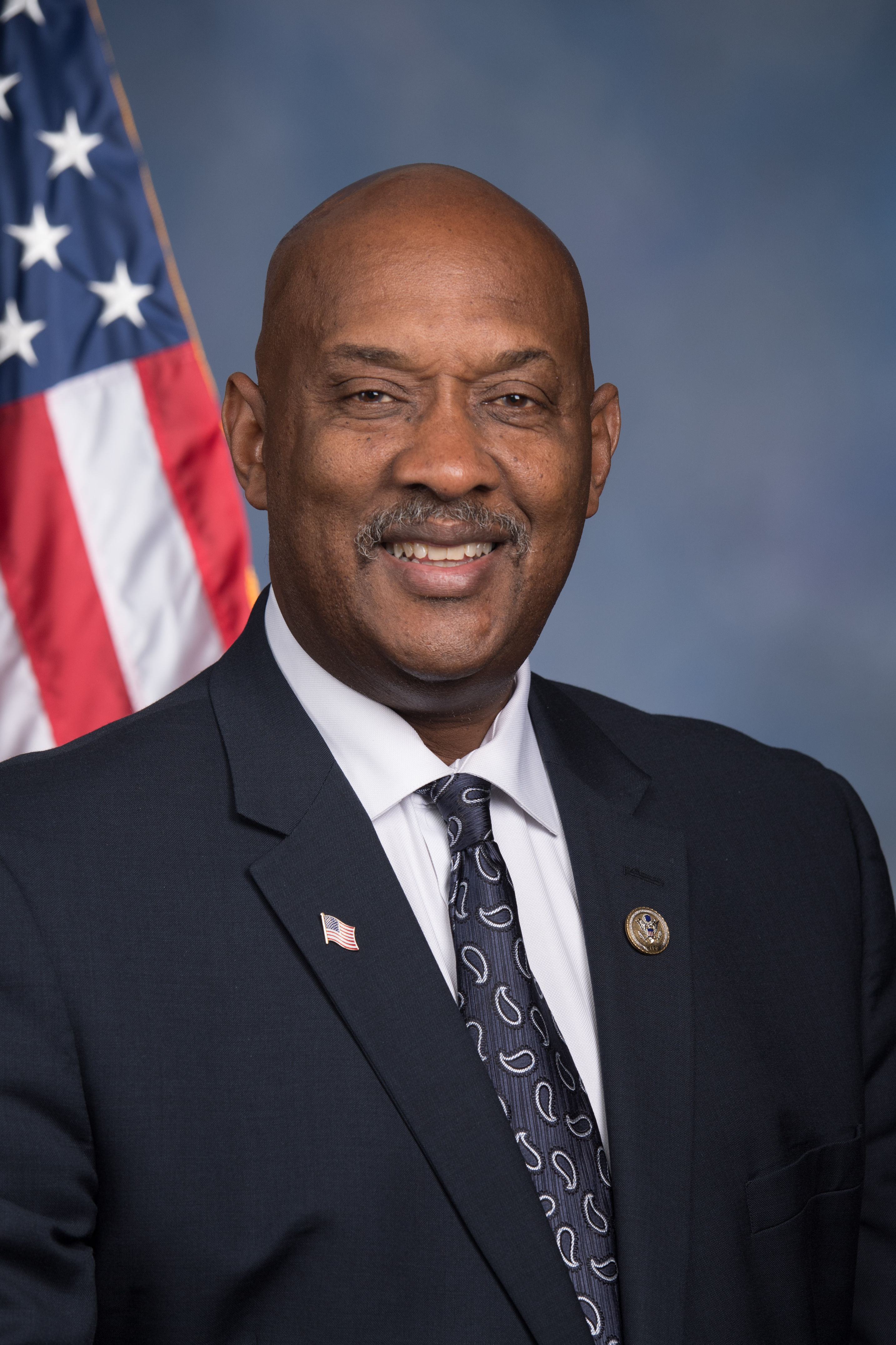 Dwight Evans official 115th Congress portrait